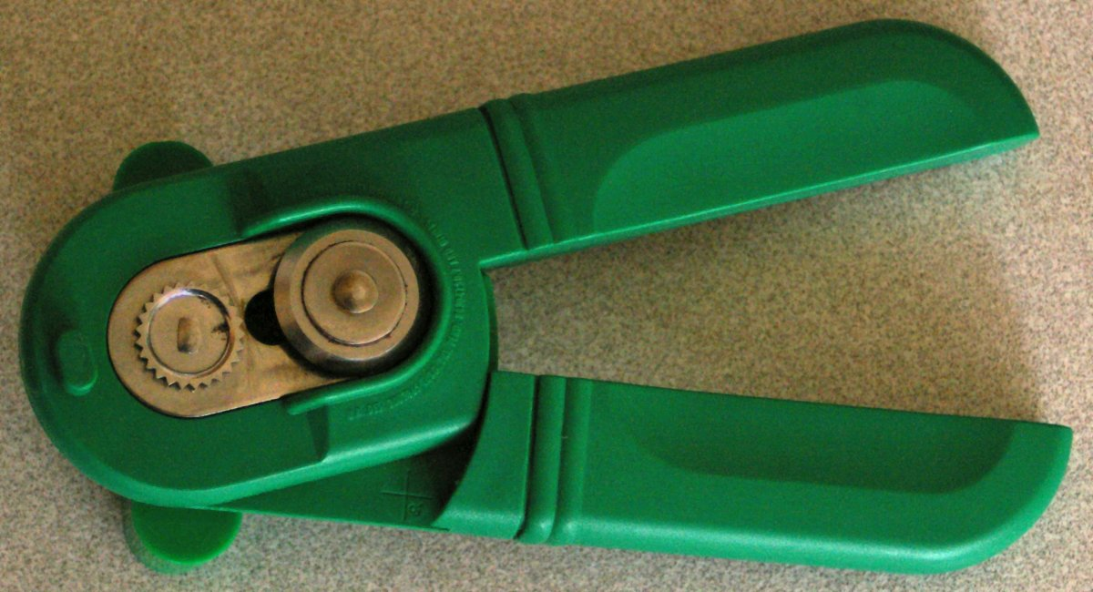 Side can opener